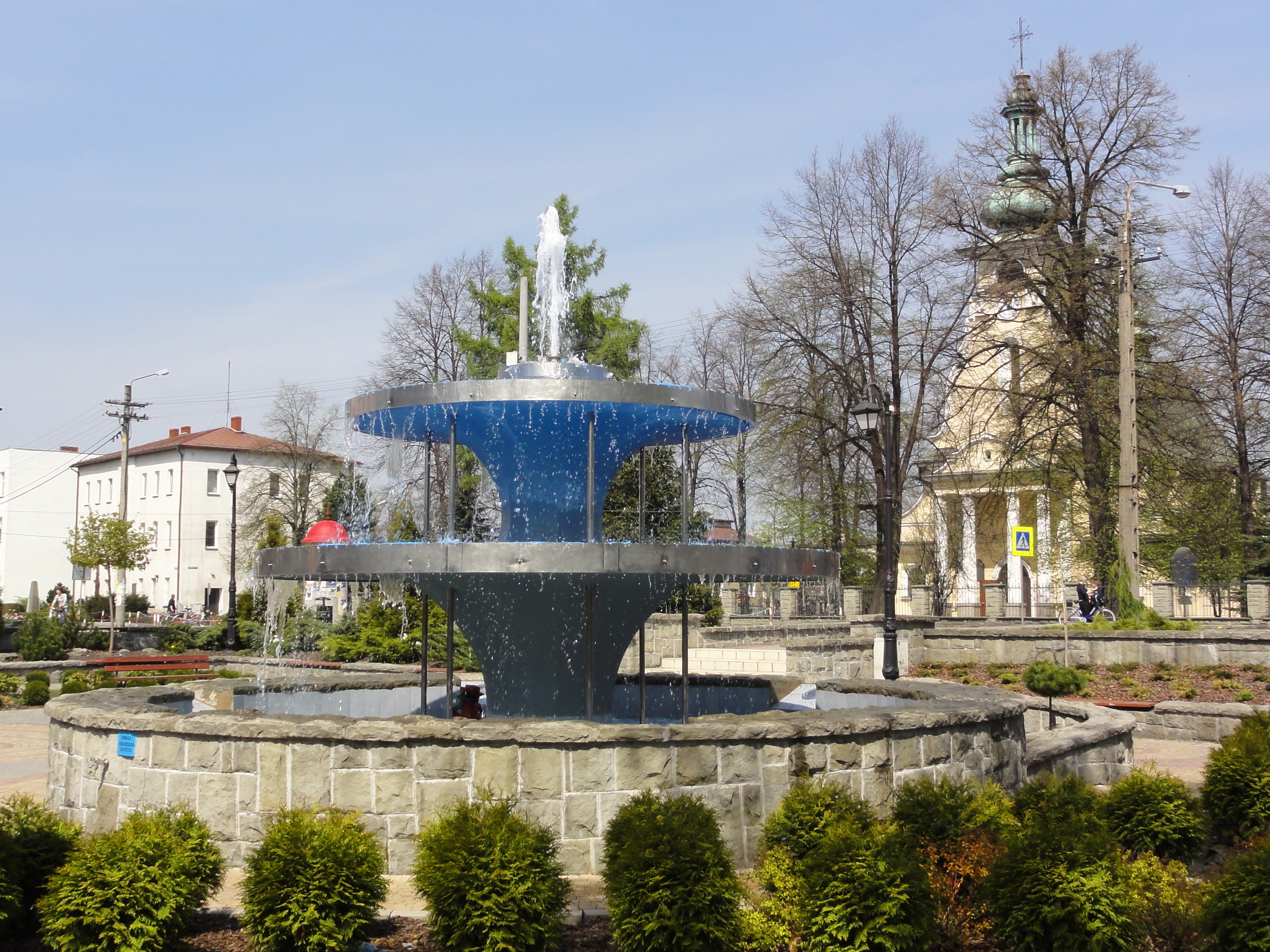 Fountain in Chybie